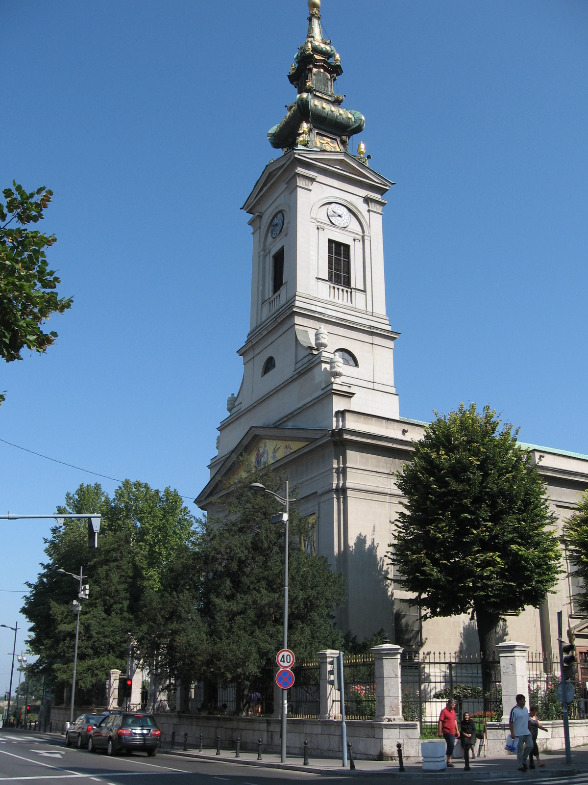 Cathedral - Belgrade